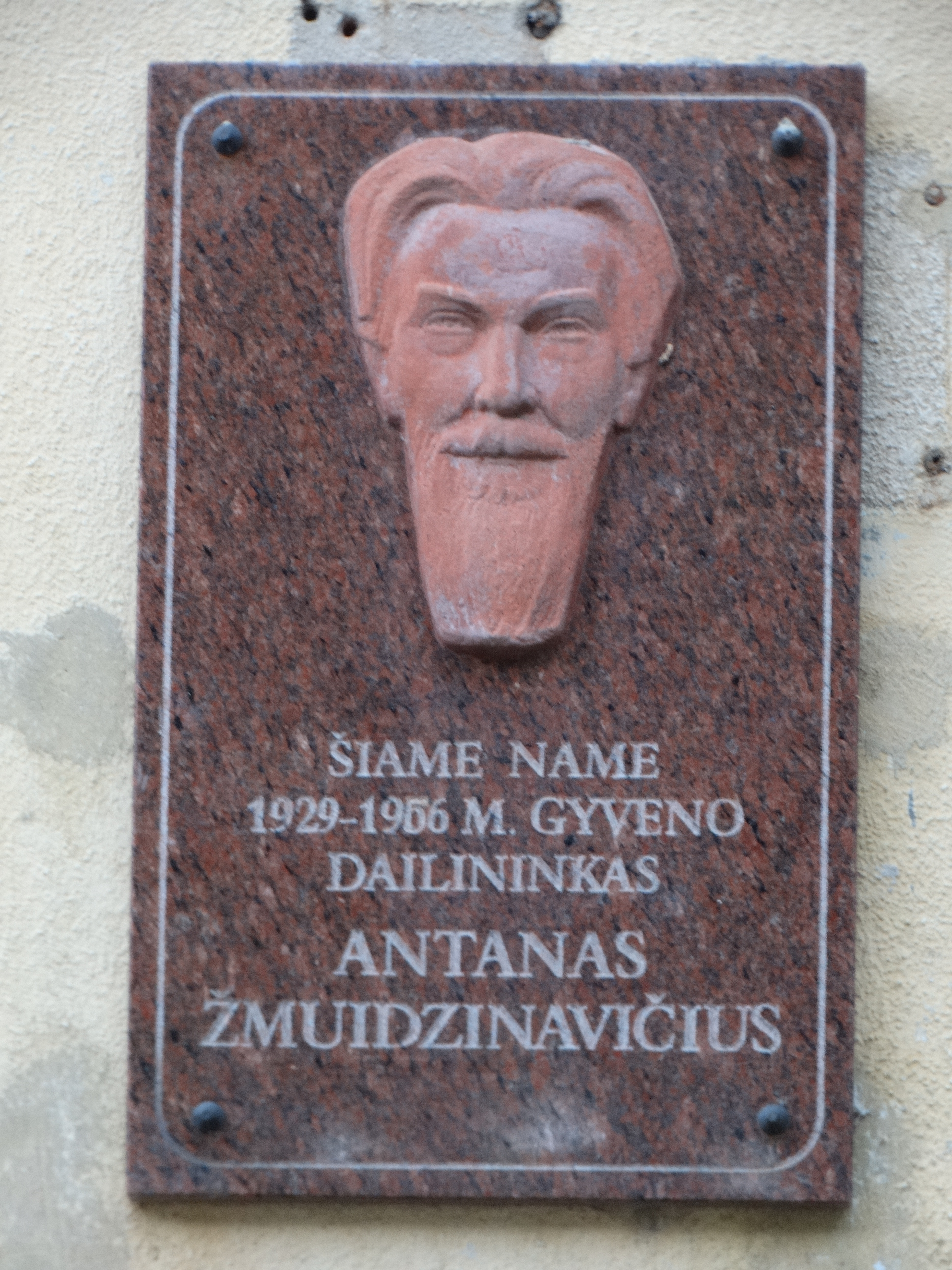 Memorial plaque to Antanas Žmuidzinavičius, Putvinskio 64, Kaunas, Lithuania